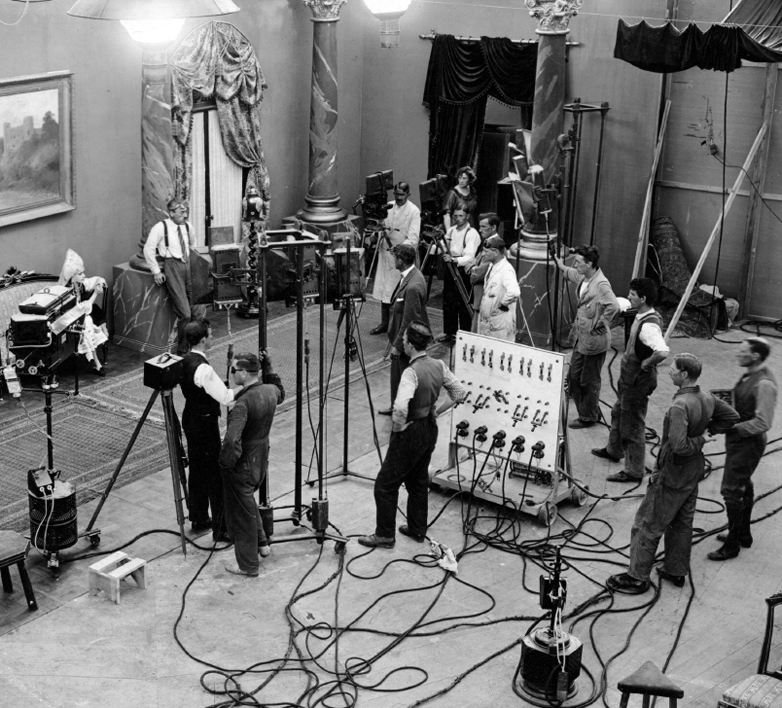 film director Mauritz Stiller (left) & cinematographer Henrik Jaenzon (camera, white blouse) on the set of De landsflyktige - publicity still